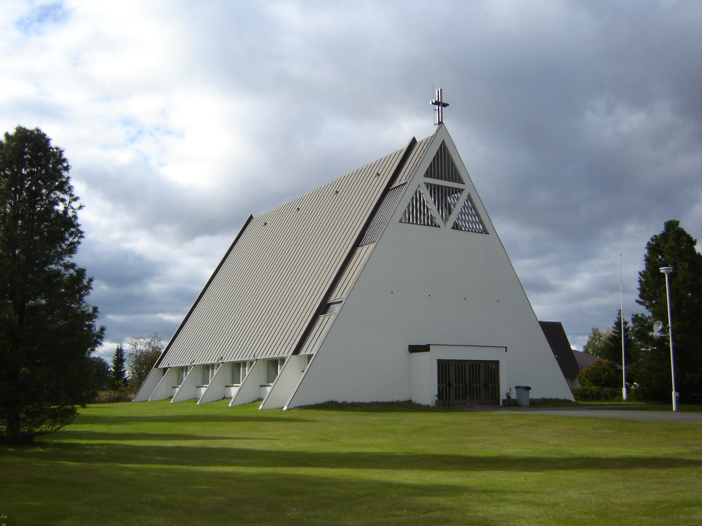 Kolari church, Finland (1965)